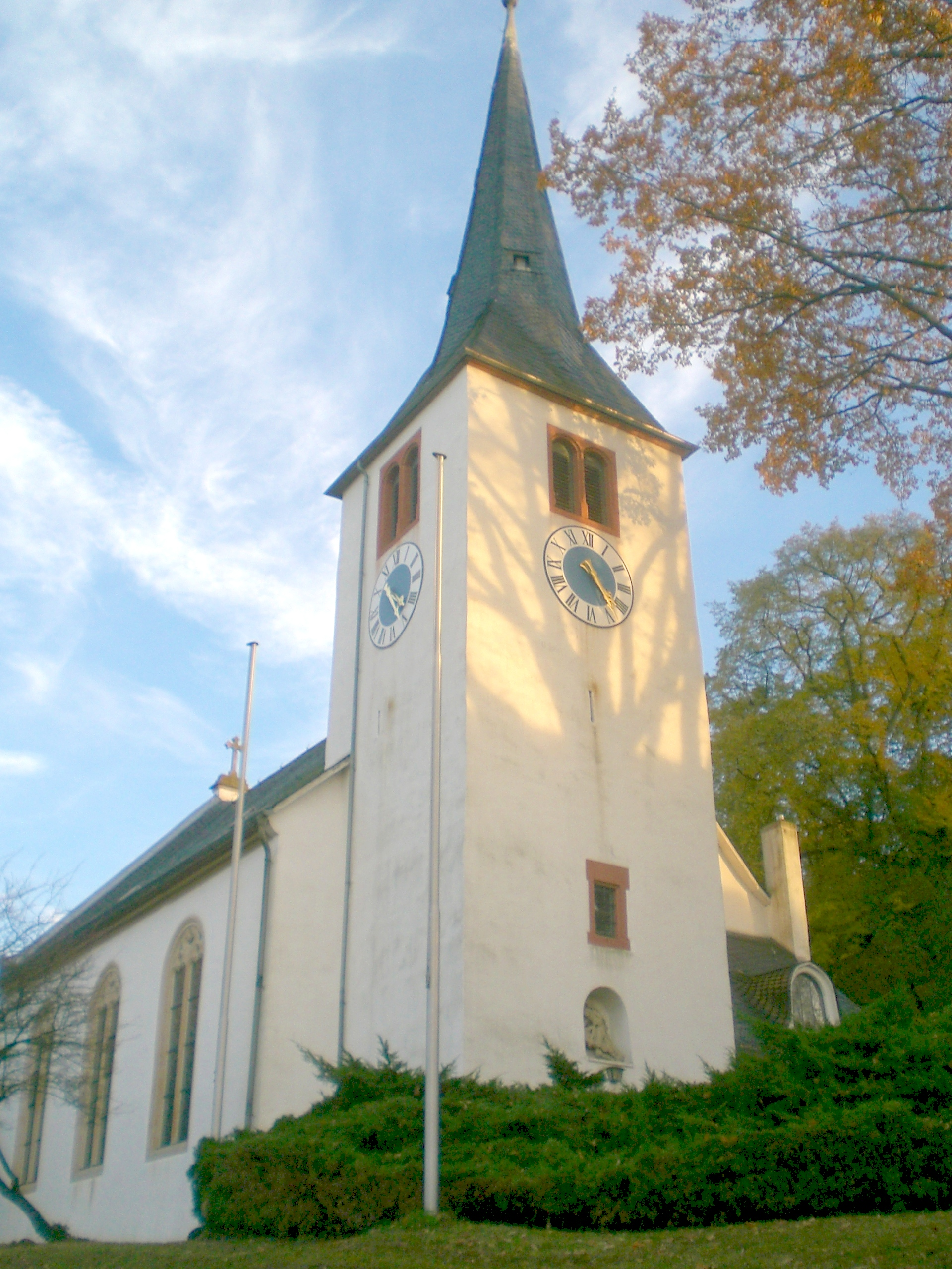 The Bergkirche church at Heiligenberg hill in Jugenheim, Seeheim-Jugenheim, Hesse, Germany